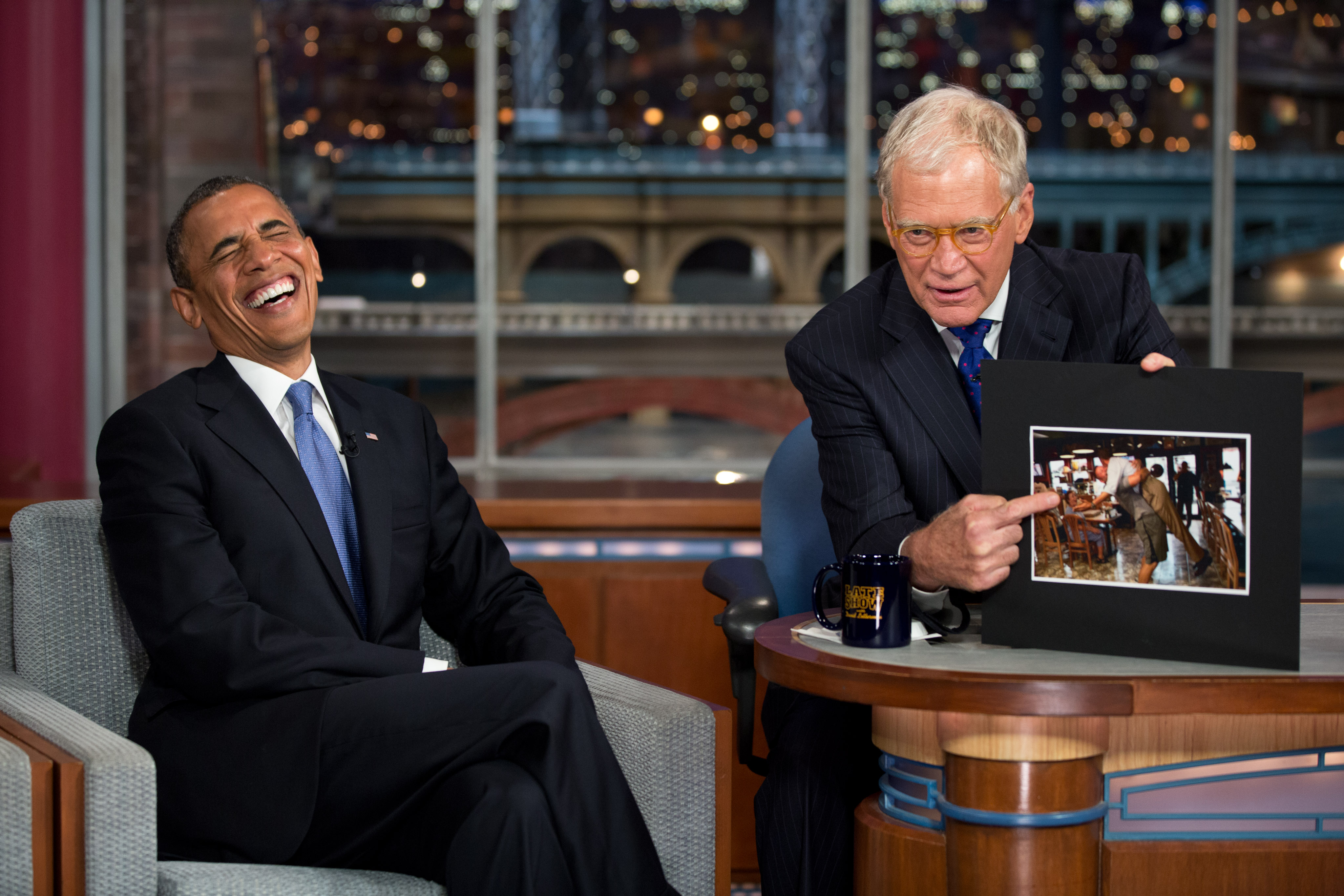 President Barack Obama reacts to a photograph during an interview with David Letterman during a taping of the "Late Show with David Letterman" at the Ed Sullivan Theater in New York, N.Y., Sept. 18, 2012. (Official White House Photo by Pete Souza)